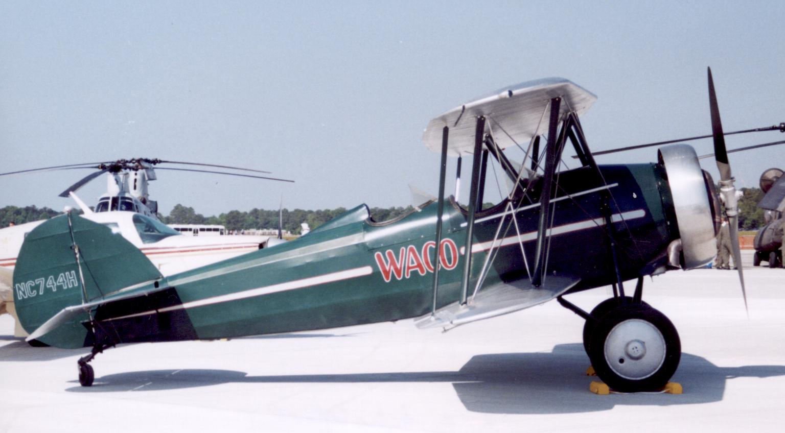 Waco CTO biplane N744H built in 1929 visiting Beaufort MCAS South Carolina